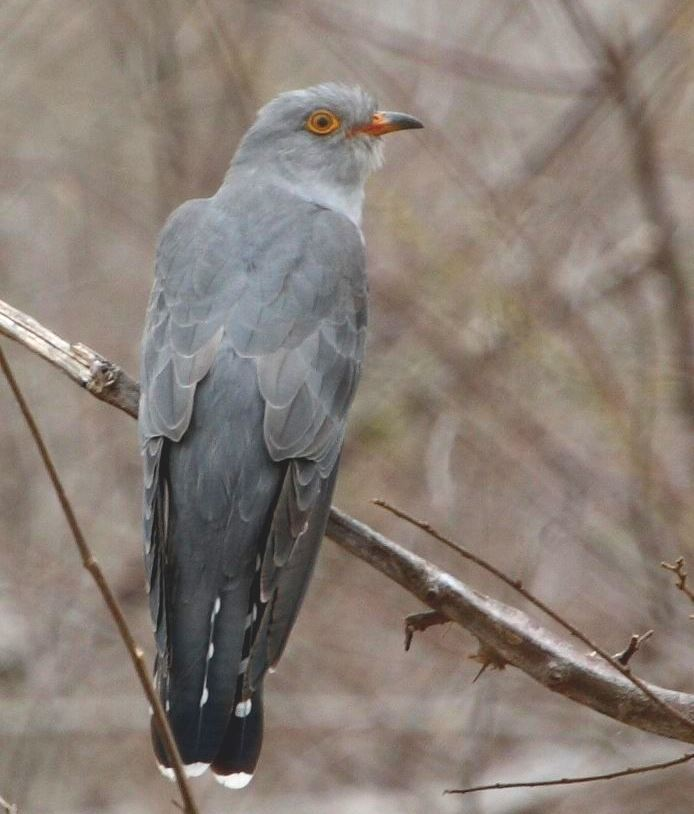 African cuckoo (Cuculus gularis) in Kruger National Park.